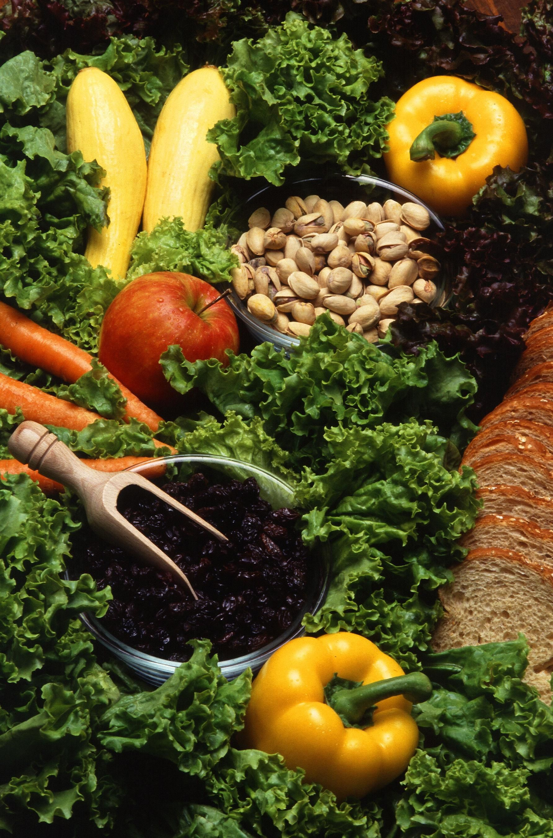 Image title: Fruits vegetables and nuts Image from Public domain images website